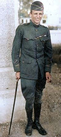 Archibald "Archie" Roosevelt in World War I after being wounded at the front. Source URL